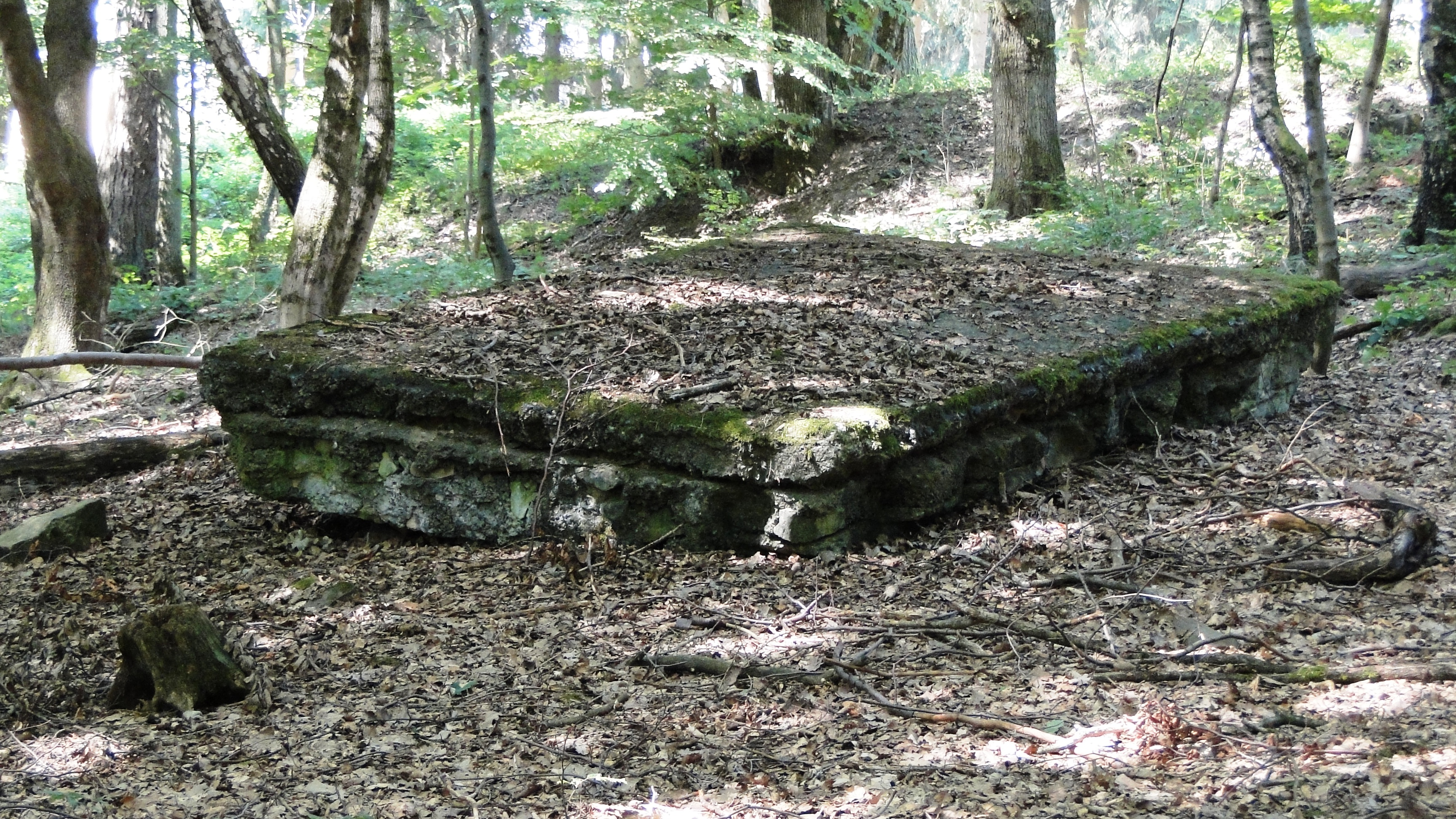 Concrete remains near the Schullandheim Wegscheide, Bad Orb, Hesse, Germany, former location of Stalag IX-B